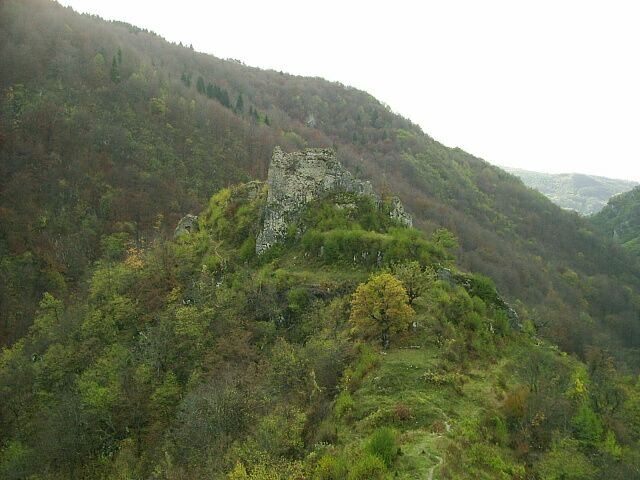 Bobovac Fortress, Bosnia and Herzegovina